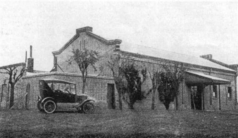 Henderson train station of Buenos Aires Midland Railway.